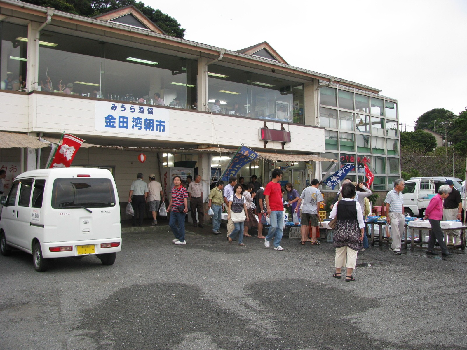 Kaneda-wan Asaichi (Kaneda bay morning market). Kaneda-wan(Ena bay) is located in Miura, Kanagawa, Japan.